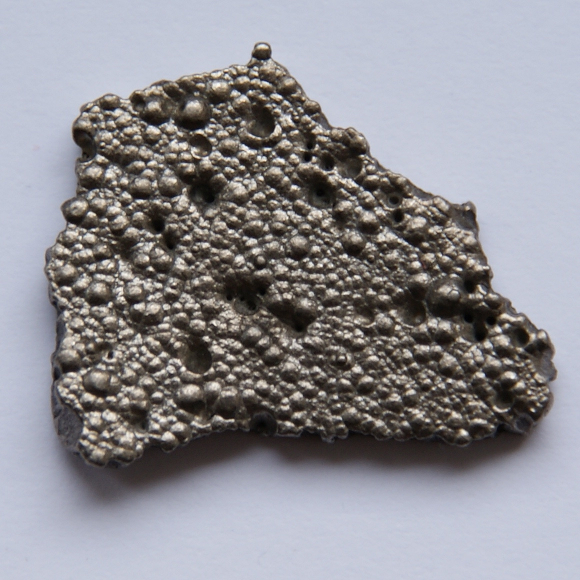 Cobalt, fraction of a cathode, 2 x 2 cm.